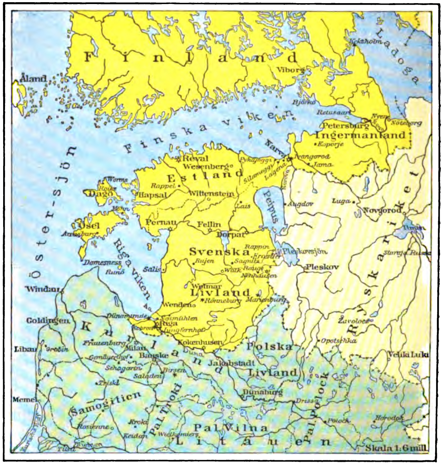 Baltic Provinces of Swedish Empire 17 century